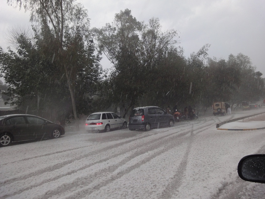 This picture is at the side Bank of Canal in Lahore, 2011.